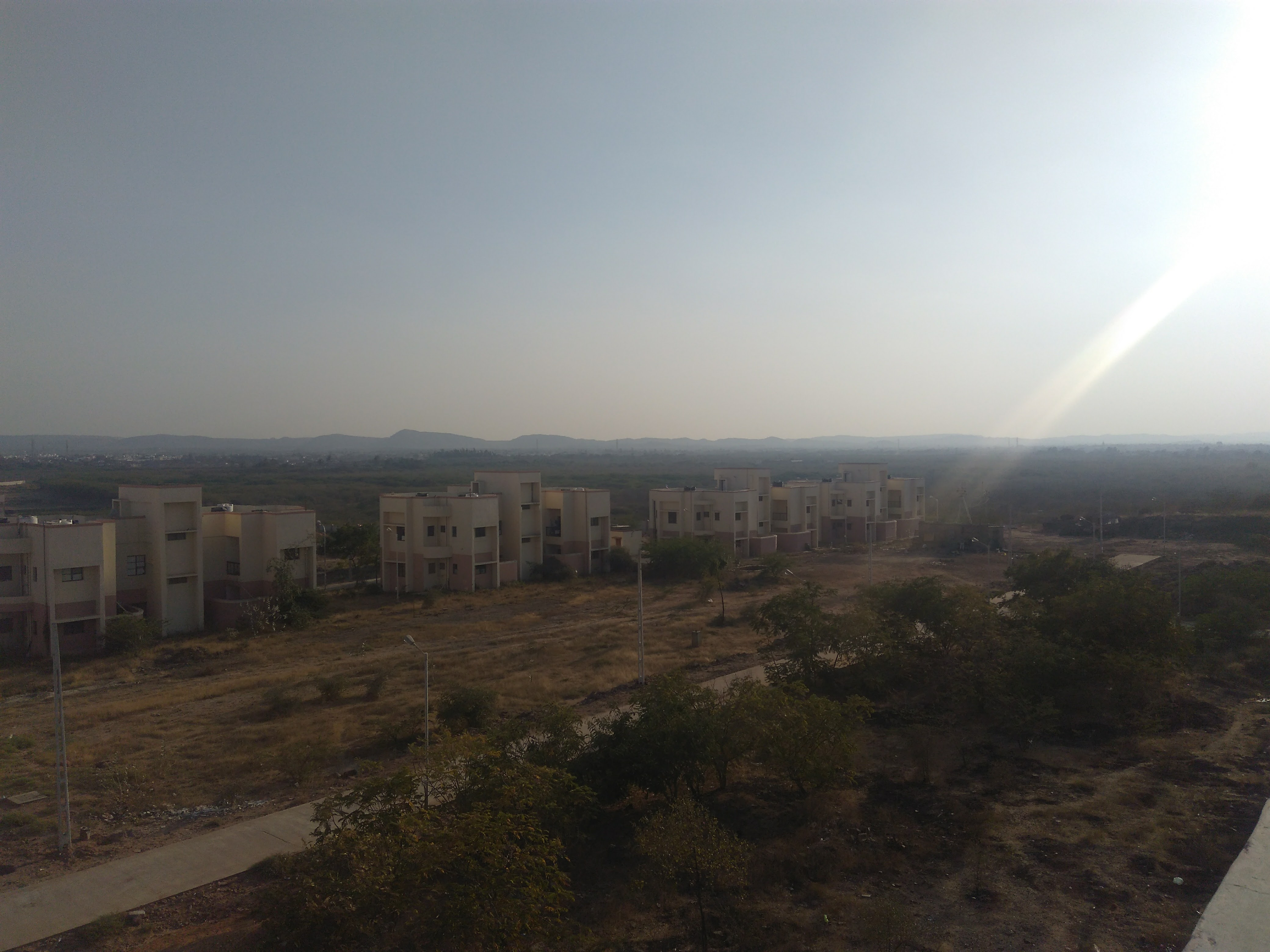 Hostel-1